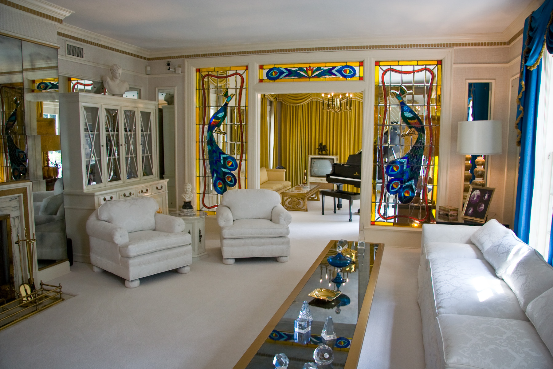 The living room inside Elvis Presley's mansion, Graceland.